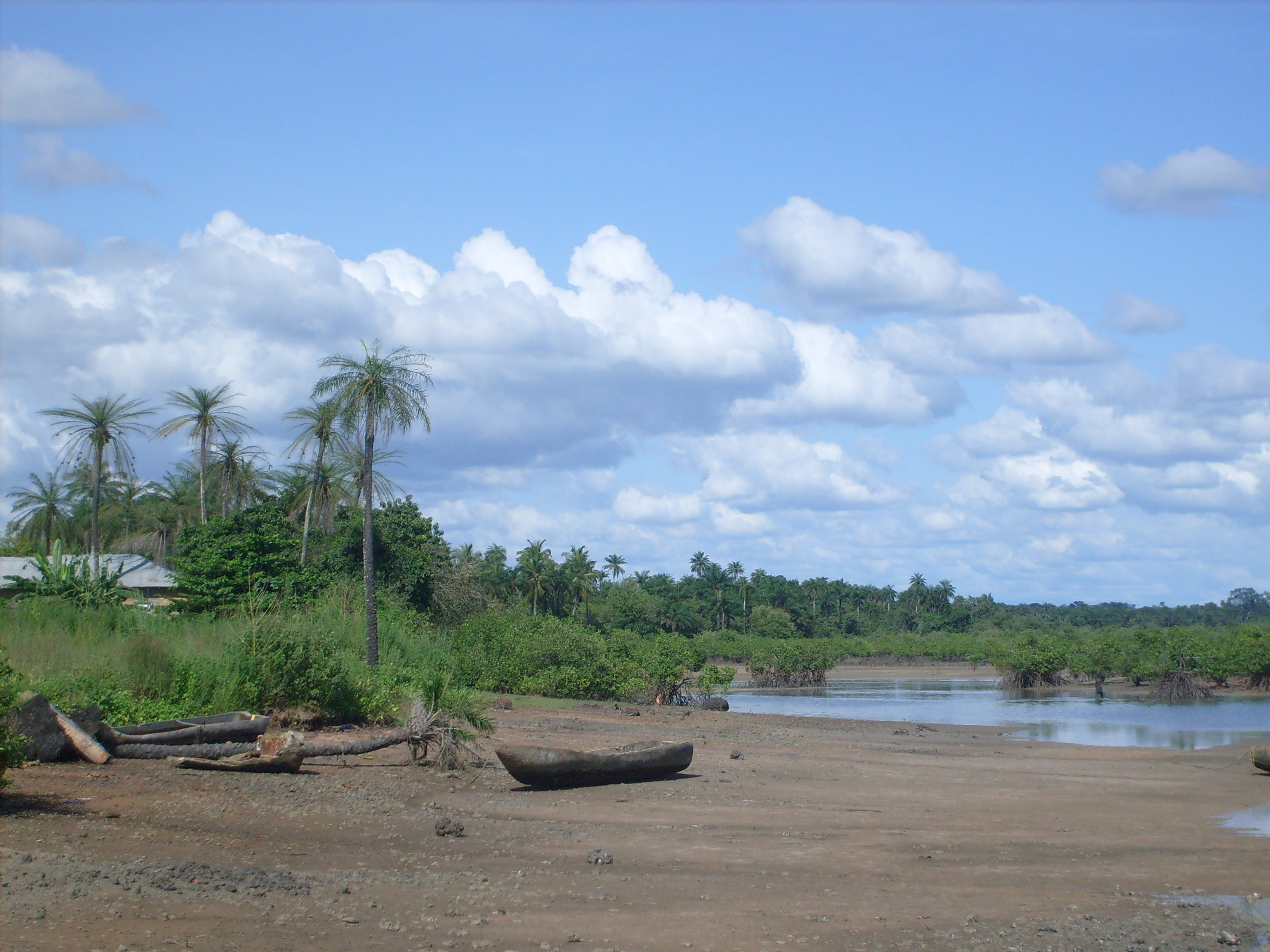 Biombo region in Guinea-Bissau, coastal areas with mangrove